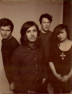 Gold & Youth Press photo by Ronnie Lee Hill